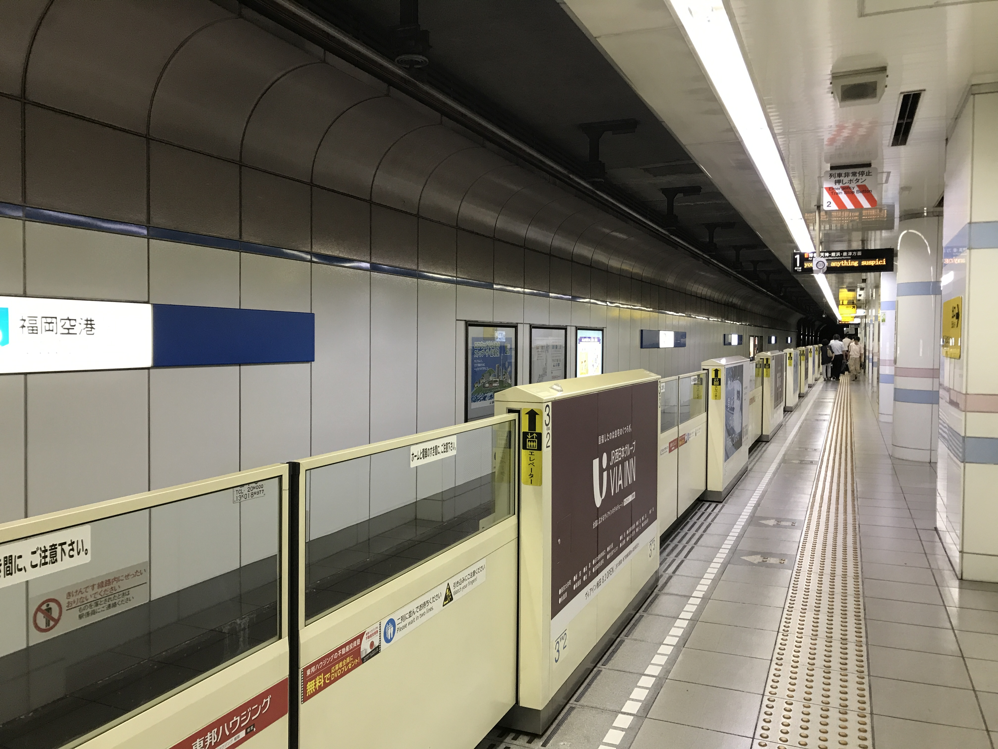 The platforms at Fukuokakuko Station in Fukuoka, Japan